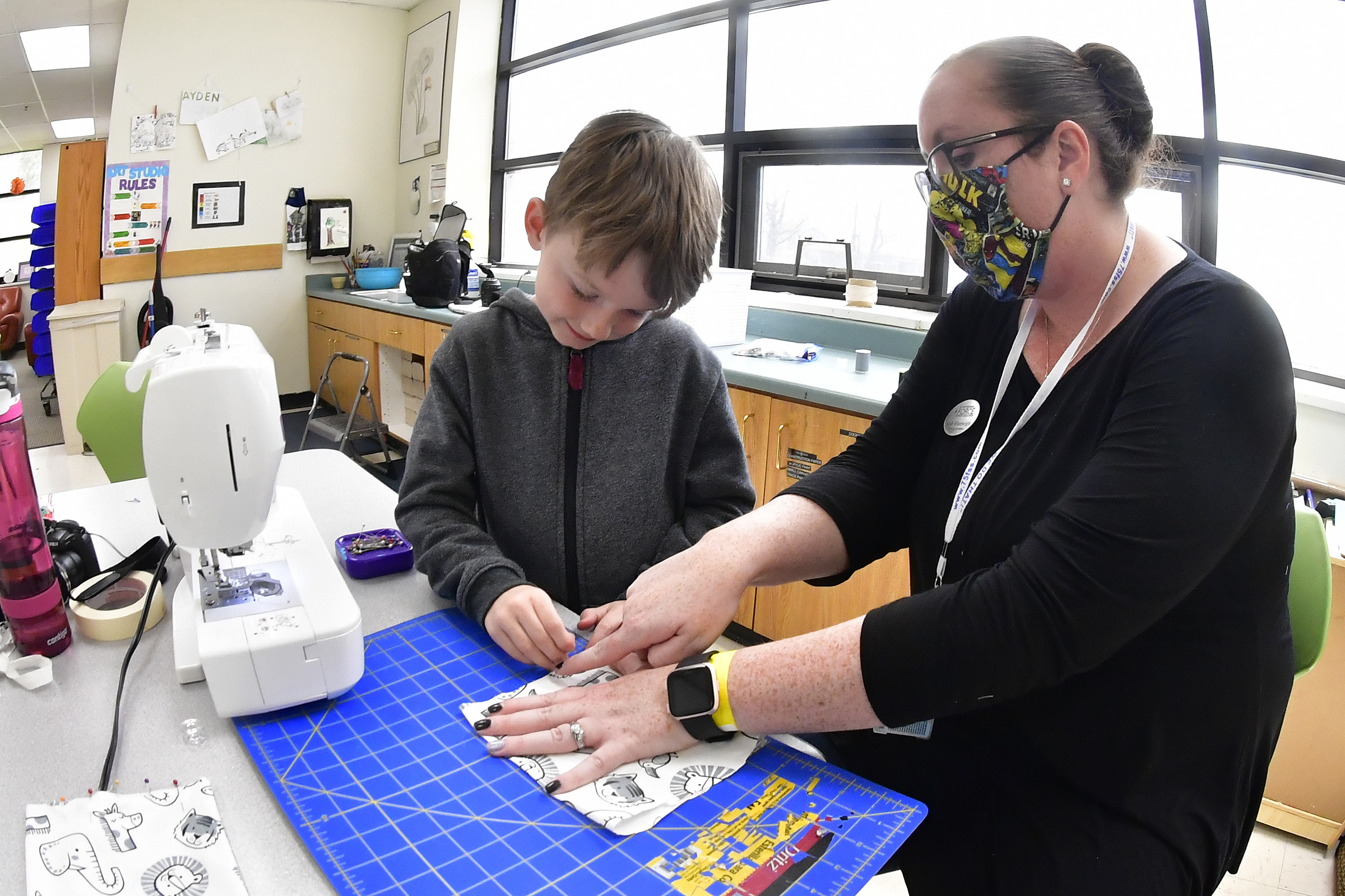 A boy, left, pinning the mask material to a pattern is helped by Sarah Wheelwright, school age coordinator, at the Youth Center April 8, 2020, at Hill Air Force Base, Utah. Children at the center have taken on the task of creating masks for themselves and for care givers at Hill AFB’s Youth and Child Development Centers. (U.S. Air Force photo by Todd Cromar)